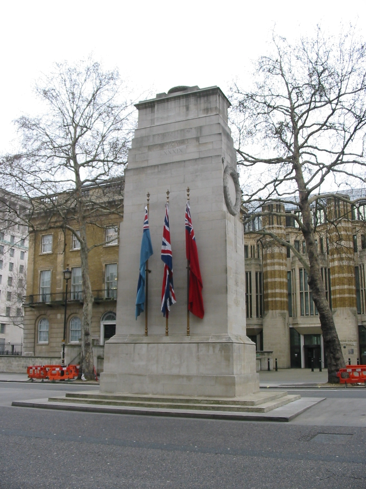 London